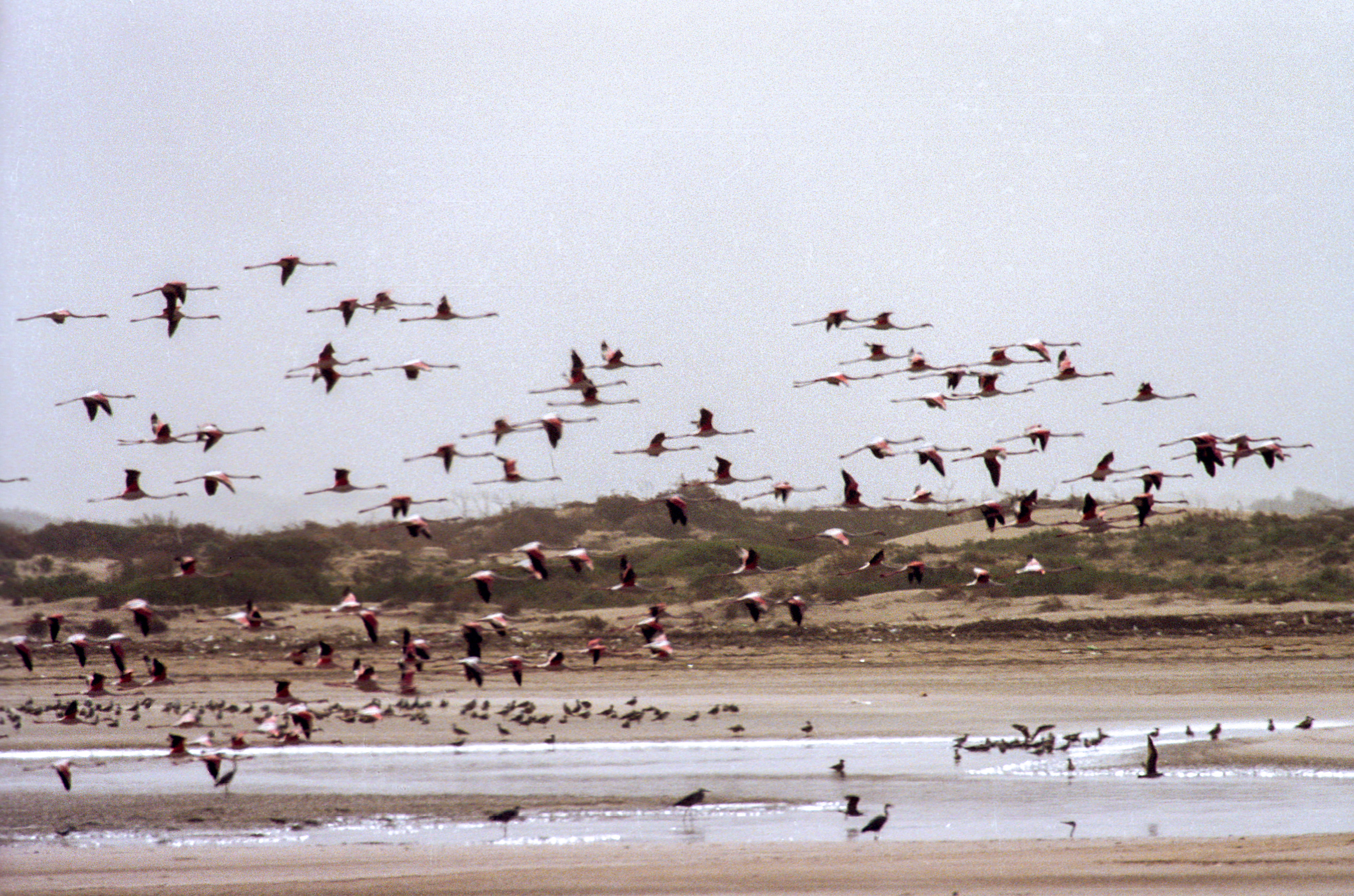 Souss estuary. Flamingos